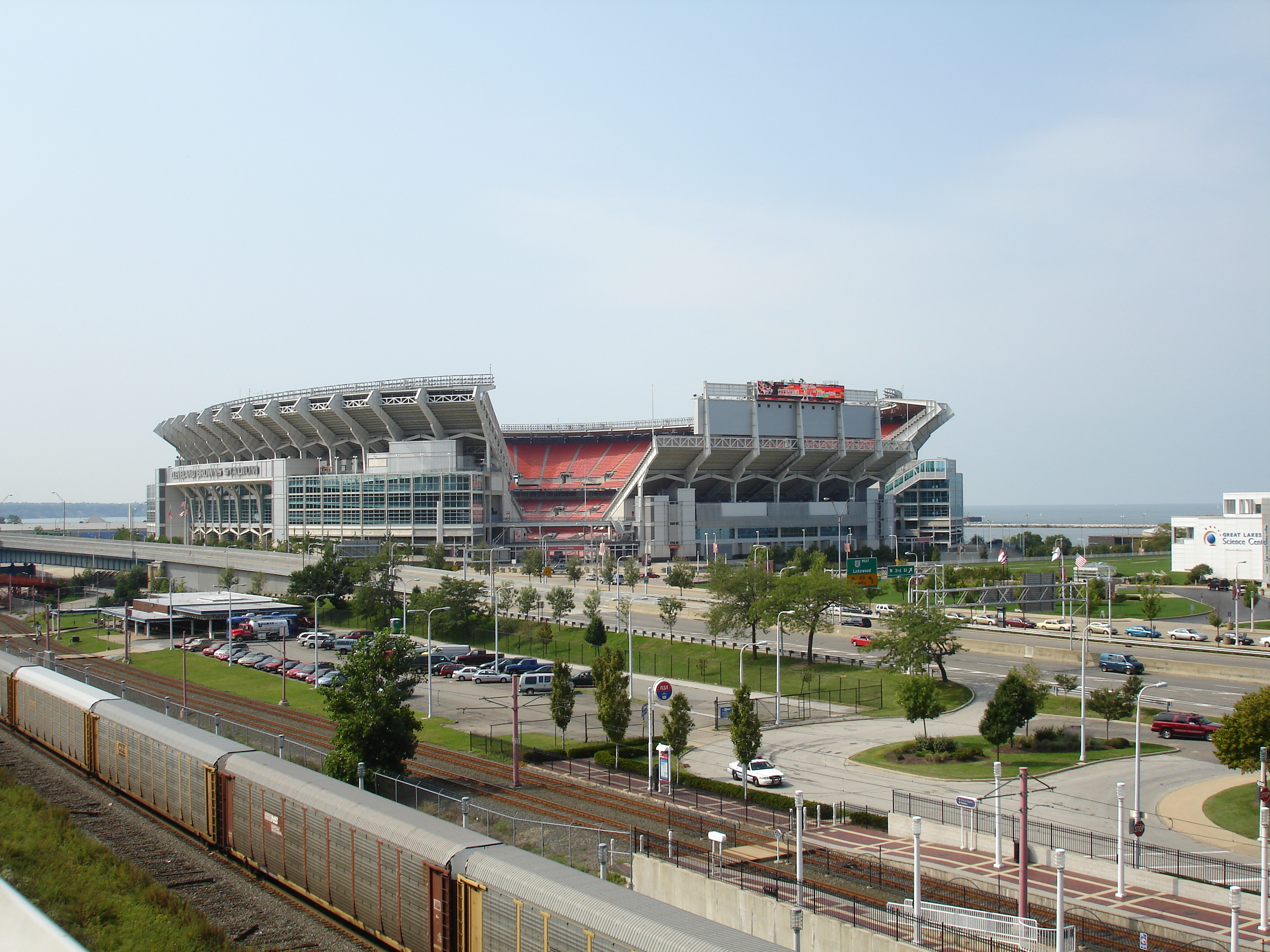 Cleveland Browns StadiumCleveland Browns Stadium